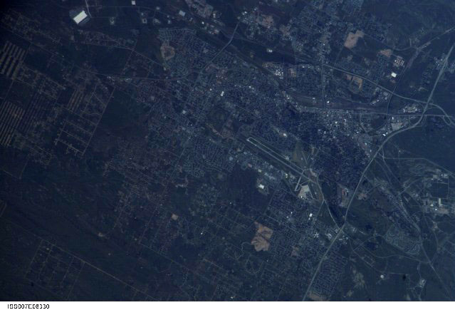 Astronaut Photography of Cheyenne Wyoming taken from the International Space Station (ISS).